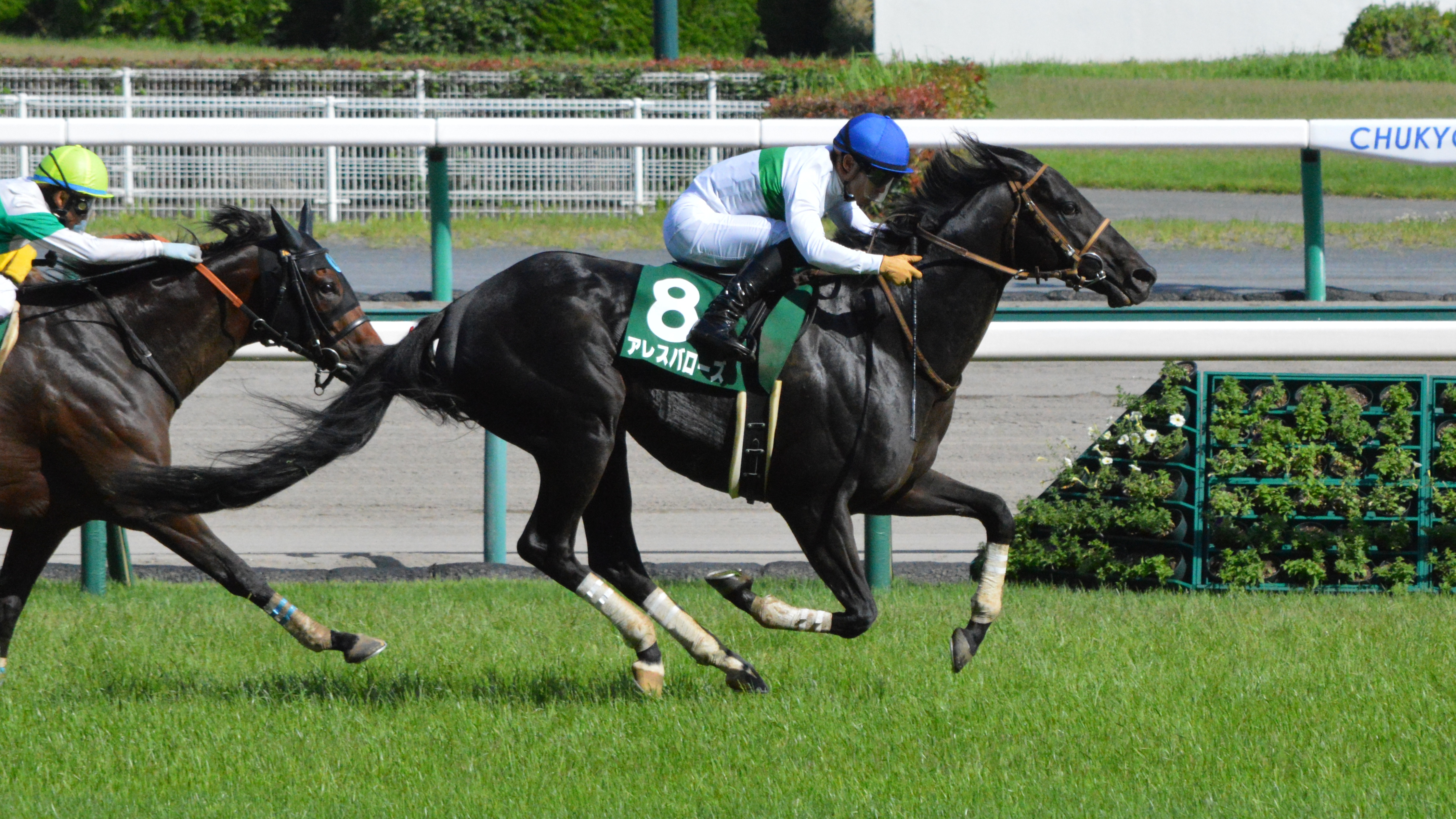 Japanese race horse Ares Barows at Chukyo racecourse. Chukyo (JPN) 1 Jul 2018CBC Sho Handicap (Grade 3) (Turf) (3yo+) 6f Firm RankHorse NameOddsAgeWgtJockeyTrainer1stAres Barows (JPN)81/10H654Yuga Kawadakoichi Tsunoda2ndNagara Flower (JPN)19/1M652Ryo TakakuraRyo TakahashiOthers are omitted. (18 horses entered in a race.)